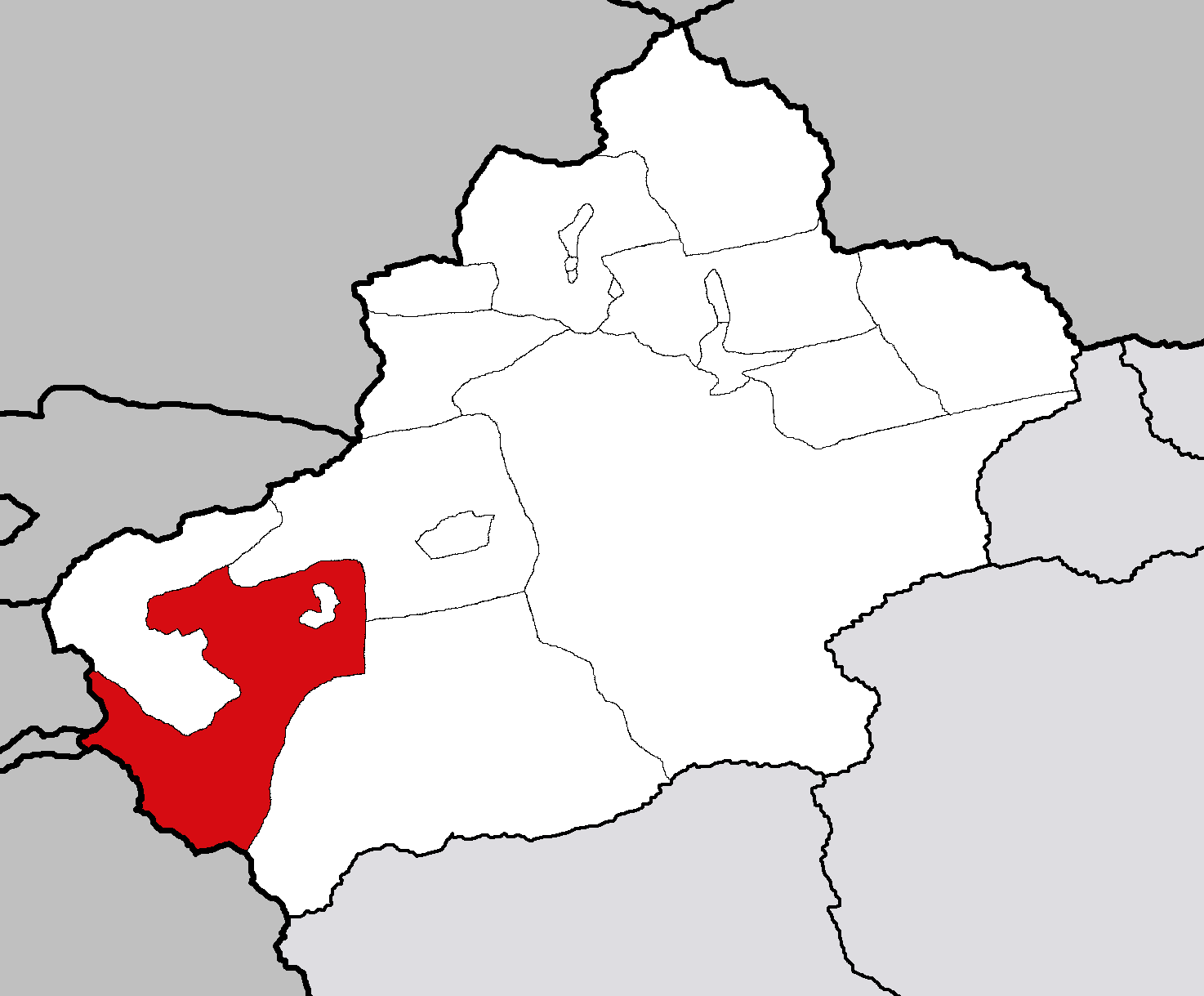 Maps of Xinjiang Uyghr Autonomous Region of China